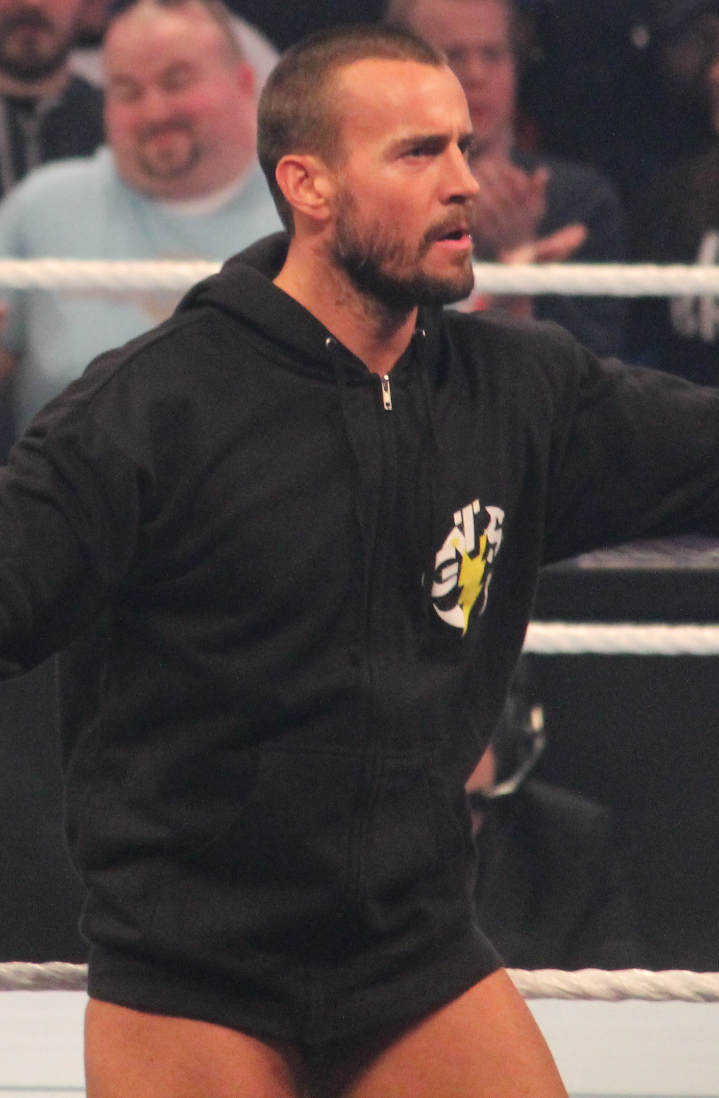 Punk before his WWE Championship rematch with The Rock at Elimination Chamber 2014.